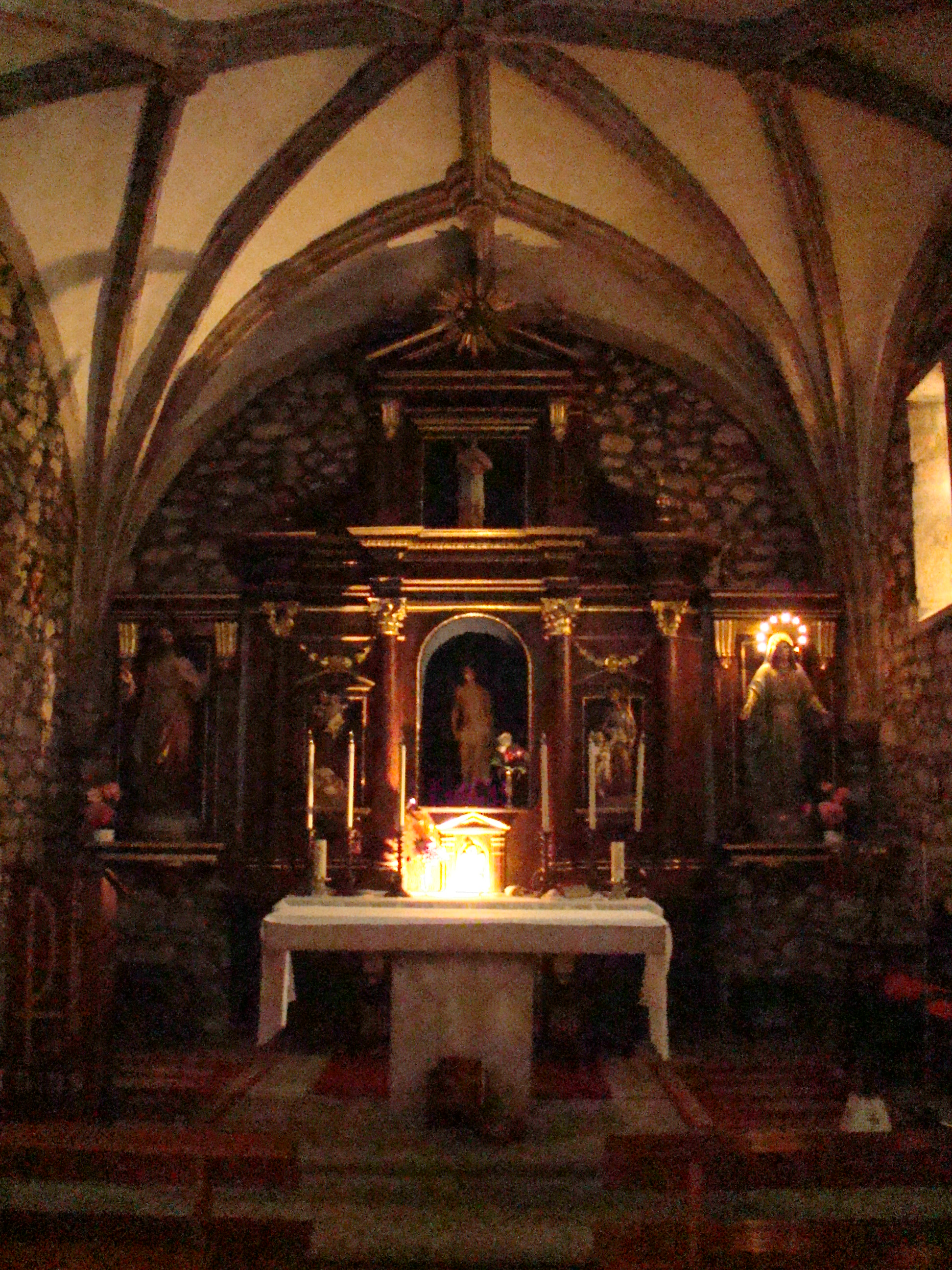 Inside view of the parochial church in San Sebastián de Garabandal, Cantabria (Spain)